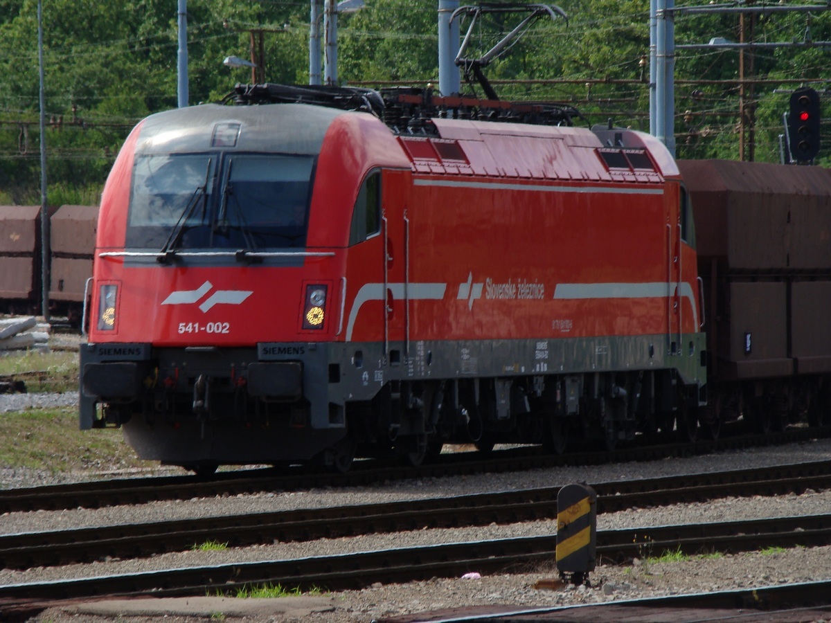 A Slovenian 541 series locomotive